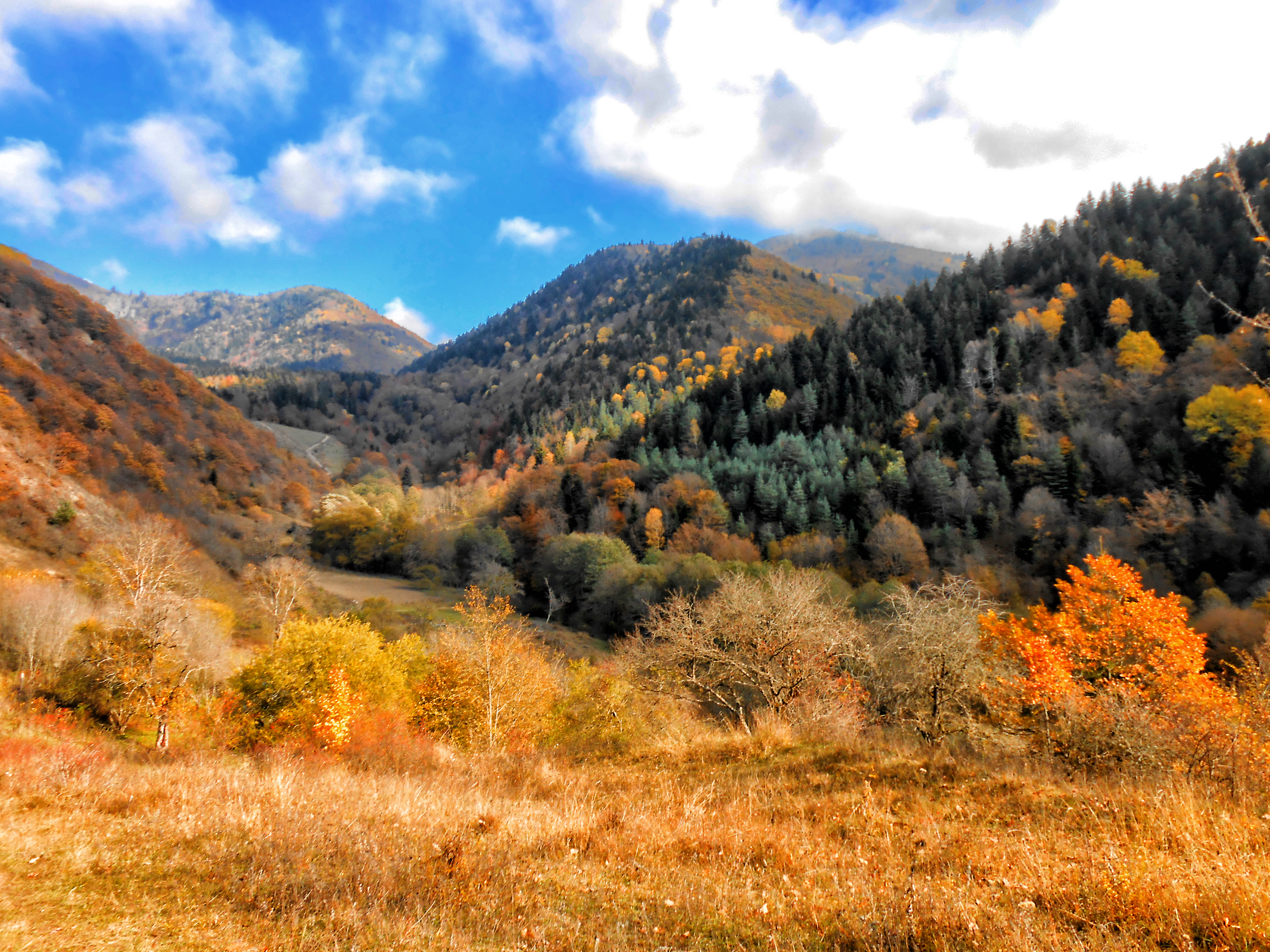 Trialeti range ,Georgia